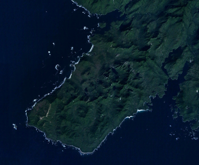 Satellite photo of Brooks Peninsula, Vancouver Island, British Columbia, Canada.